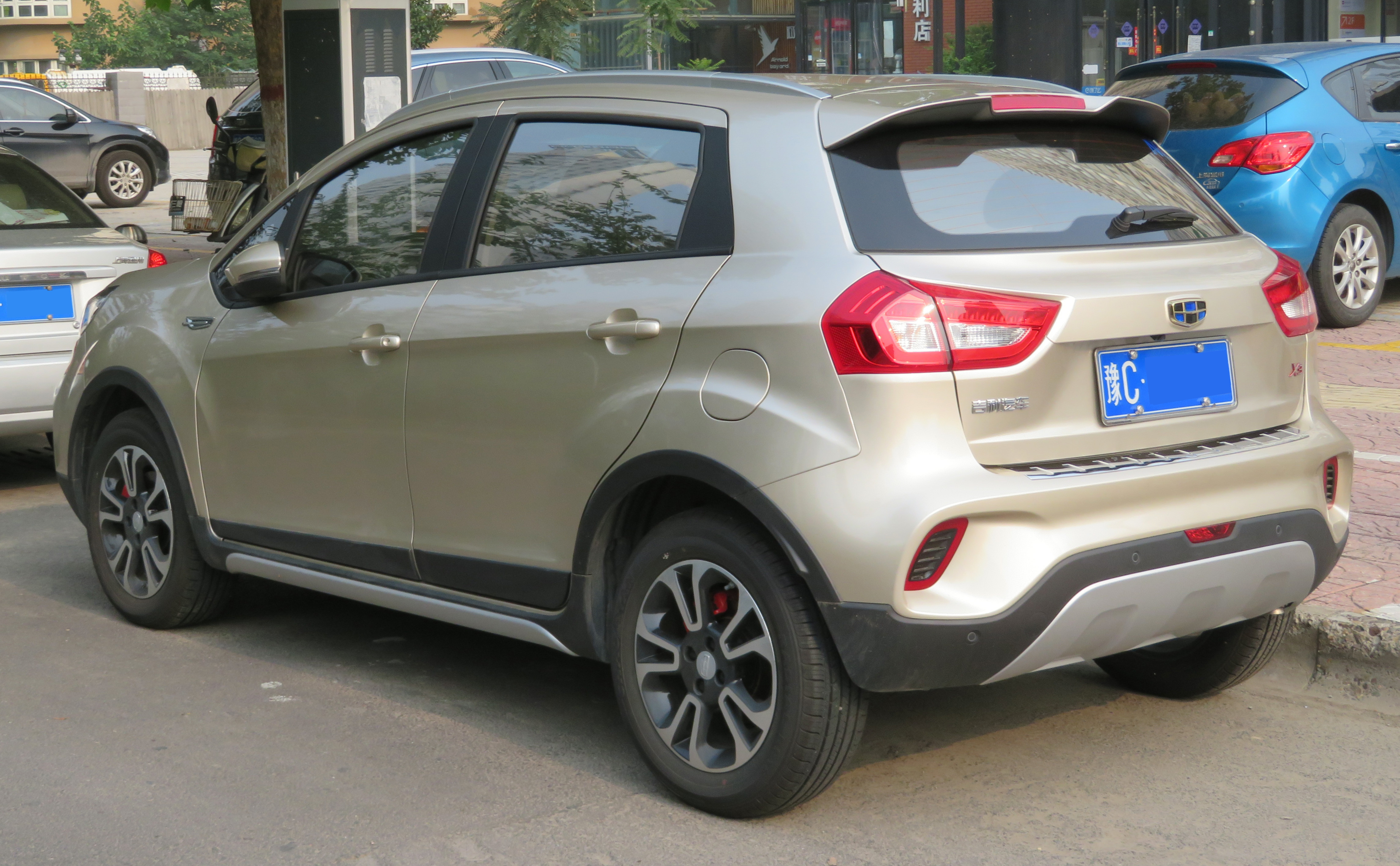 Photographed in Luoyang, Henan province, China